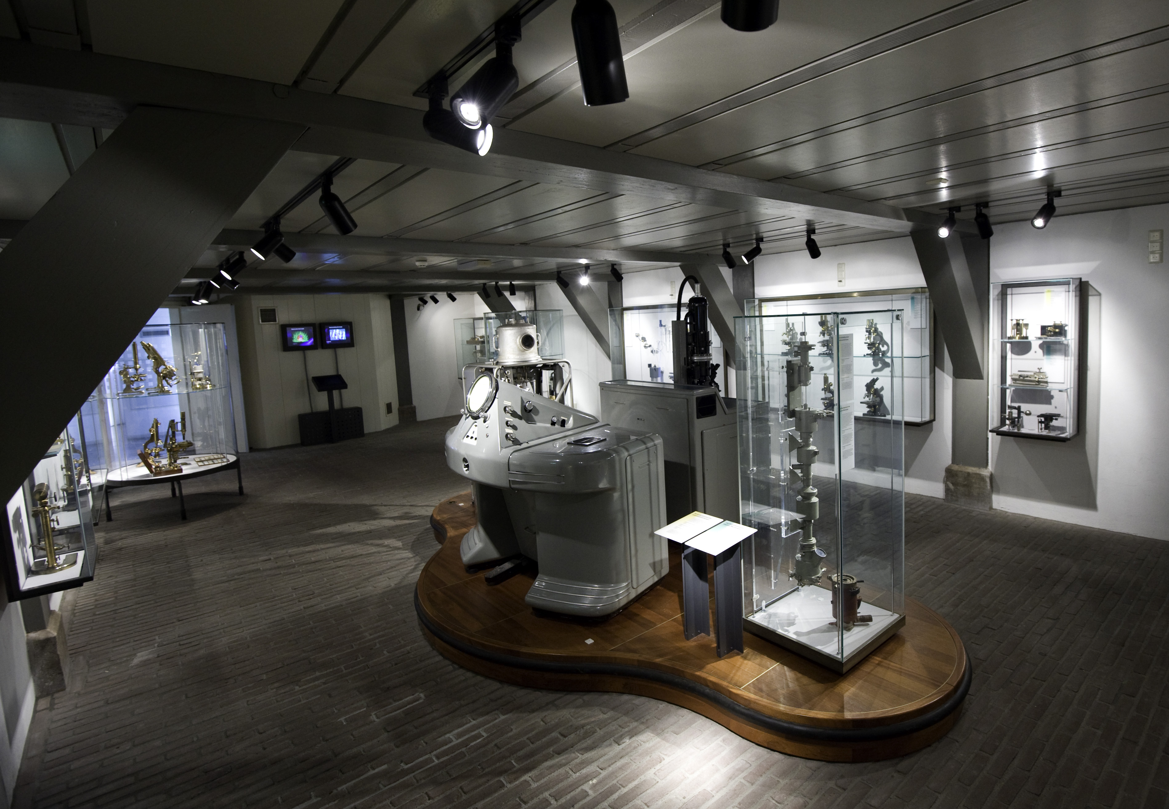 Museum Boerhaave walk-through